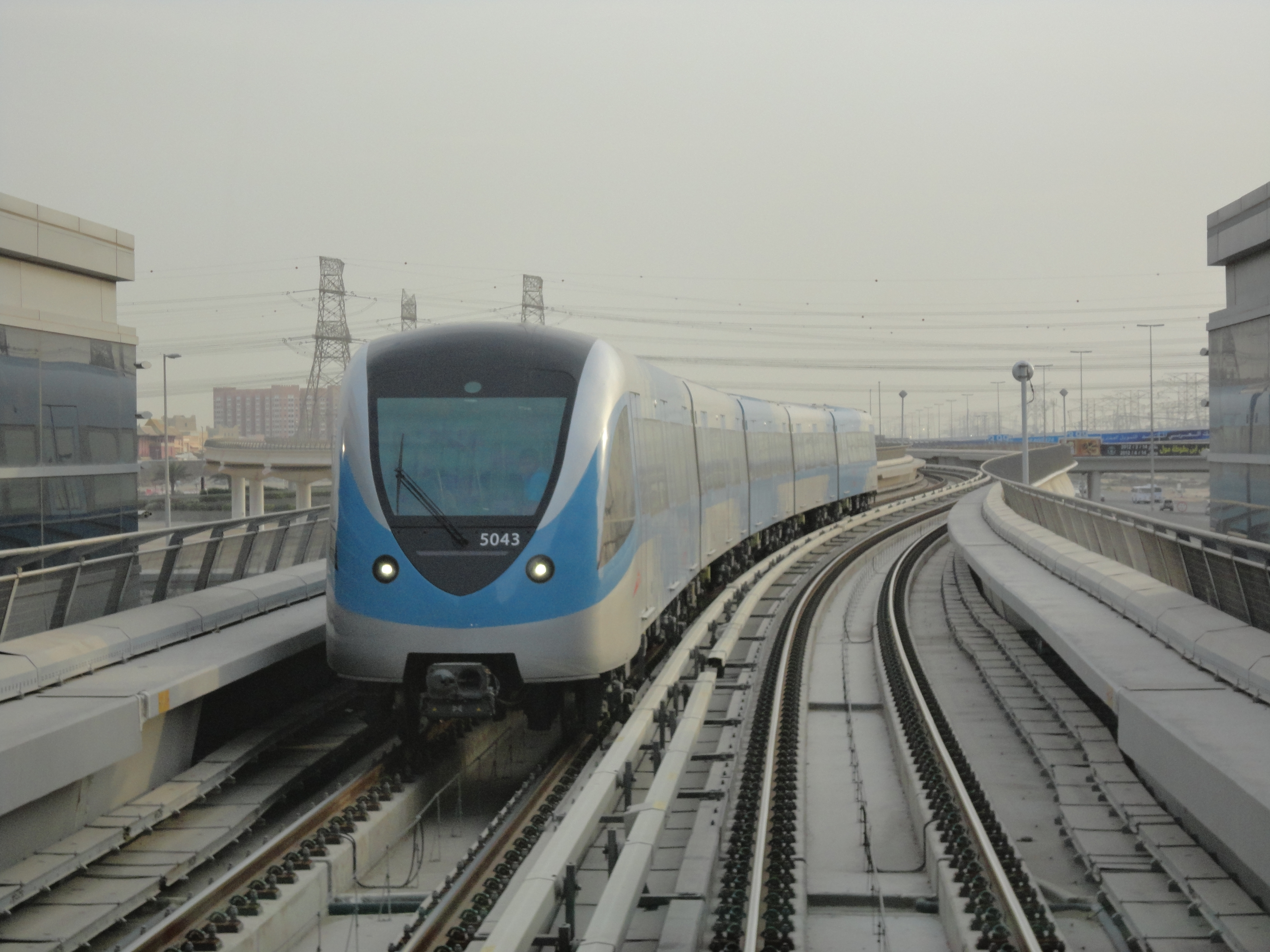 Metro Dubai red line